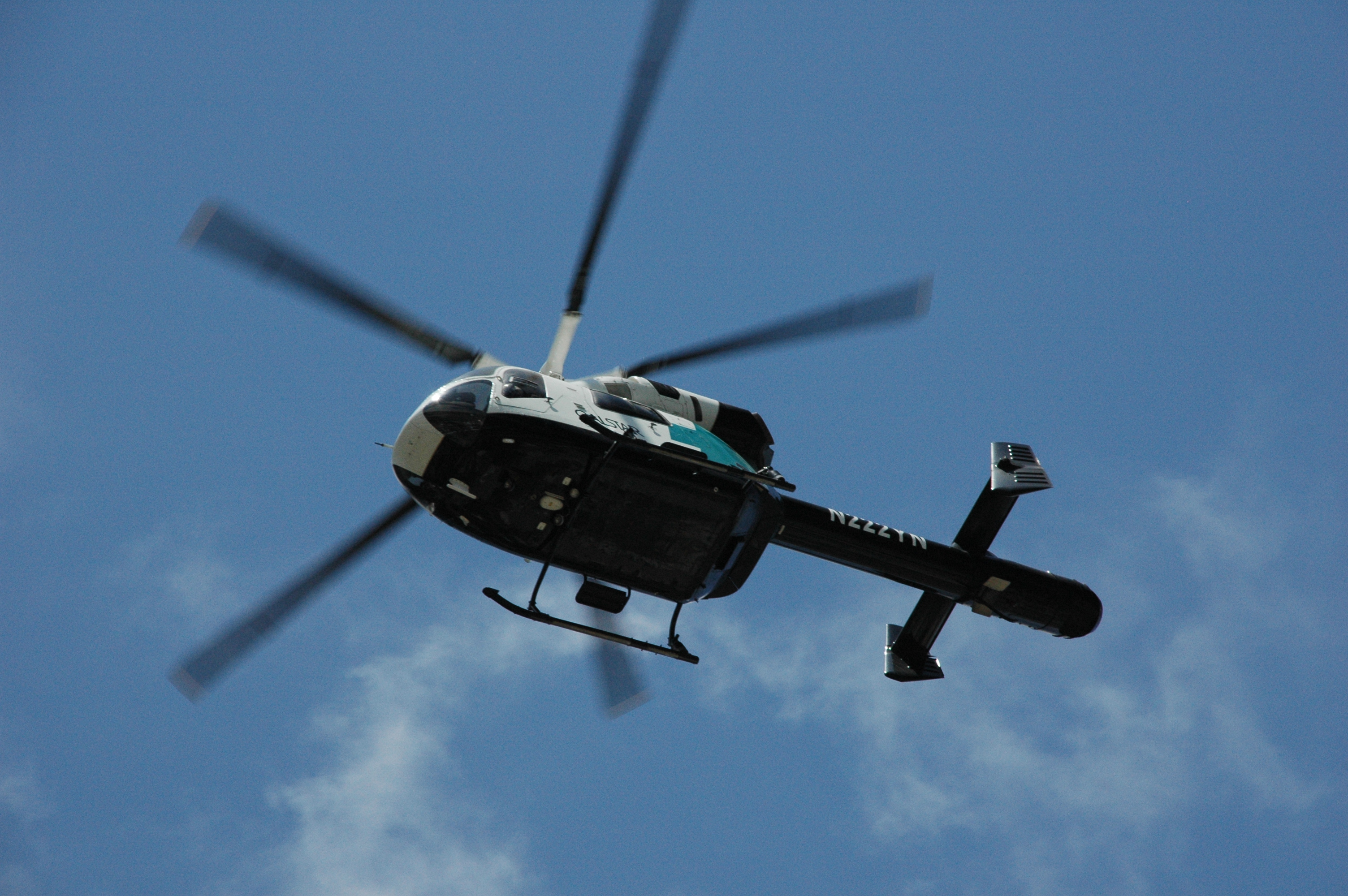 A Calstar MD Explorer on close flyby.